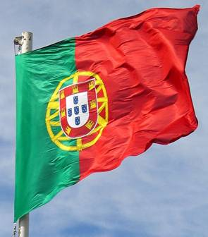 The Portuguese flag waving.